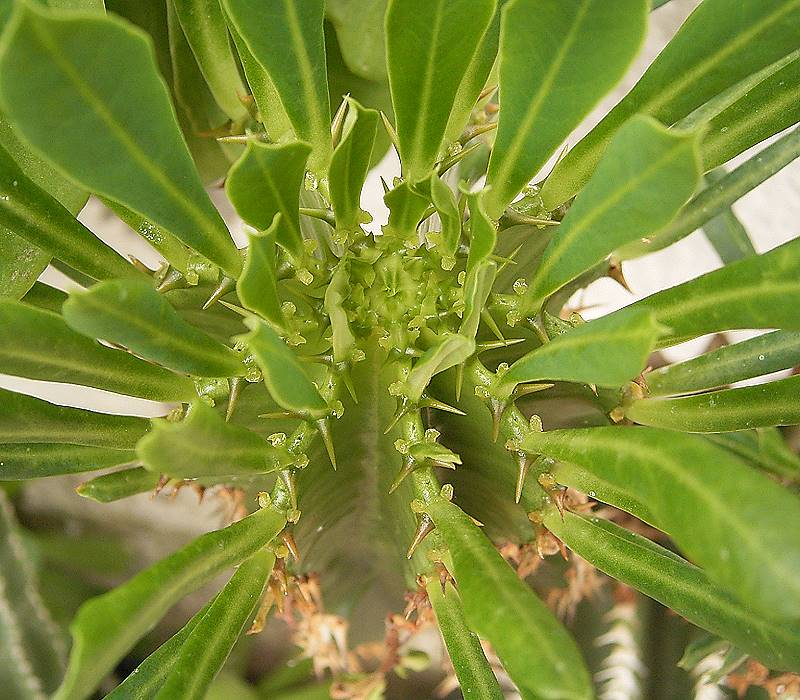 Euphorbia abyssinica BG Heidelberg, Germany